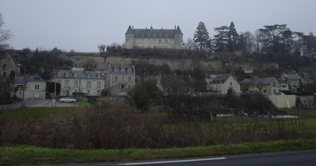 7 January 2006 Vouvray in the French Loire Valley wine region